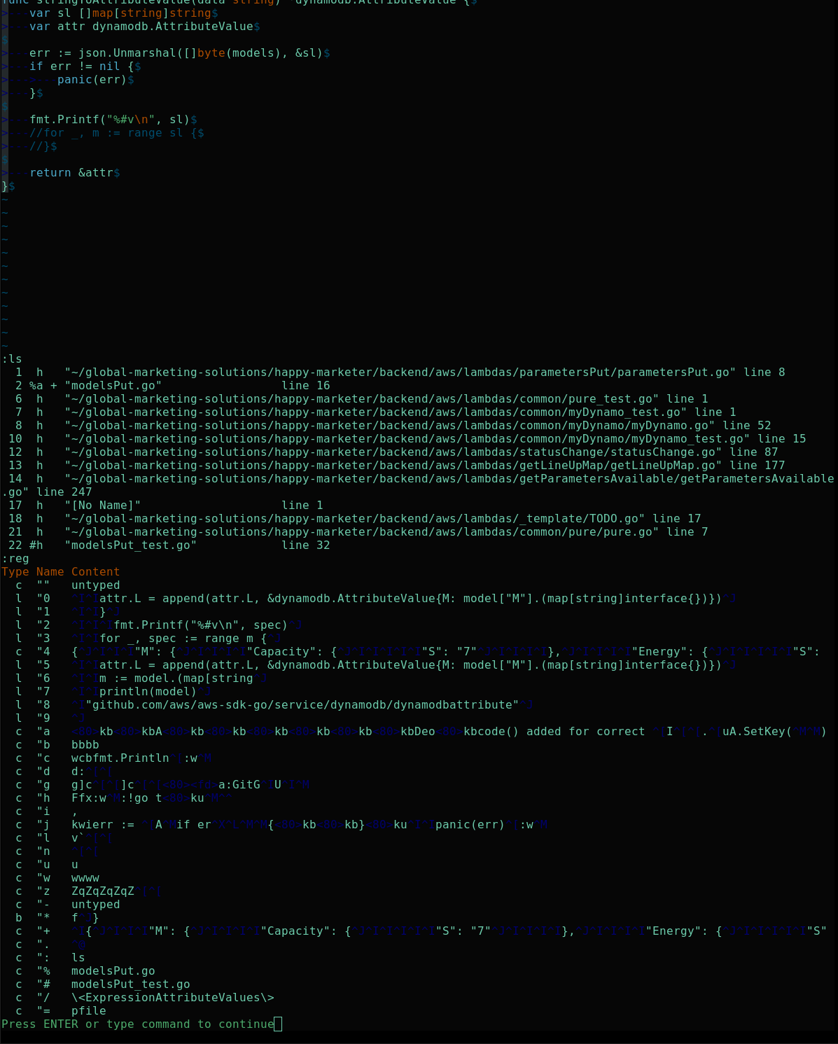 Vim 8.2